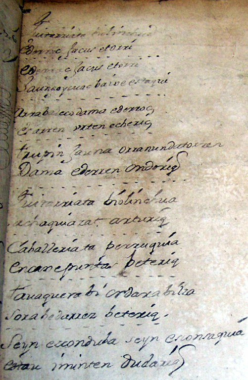 Satiric verses sung in Basque that led to a trial in Eibar, the Basque Country, 1721. The verses were allegedly composed by Angela and Ana Maria Armona, mother and daughter.